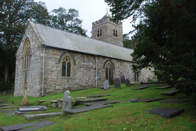 Eglwys S Pedrog Llanbedrog For a history of this ancient foundation for an early view (ca 1885) about ten years before the bell tower was added